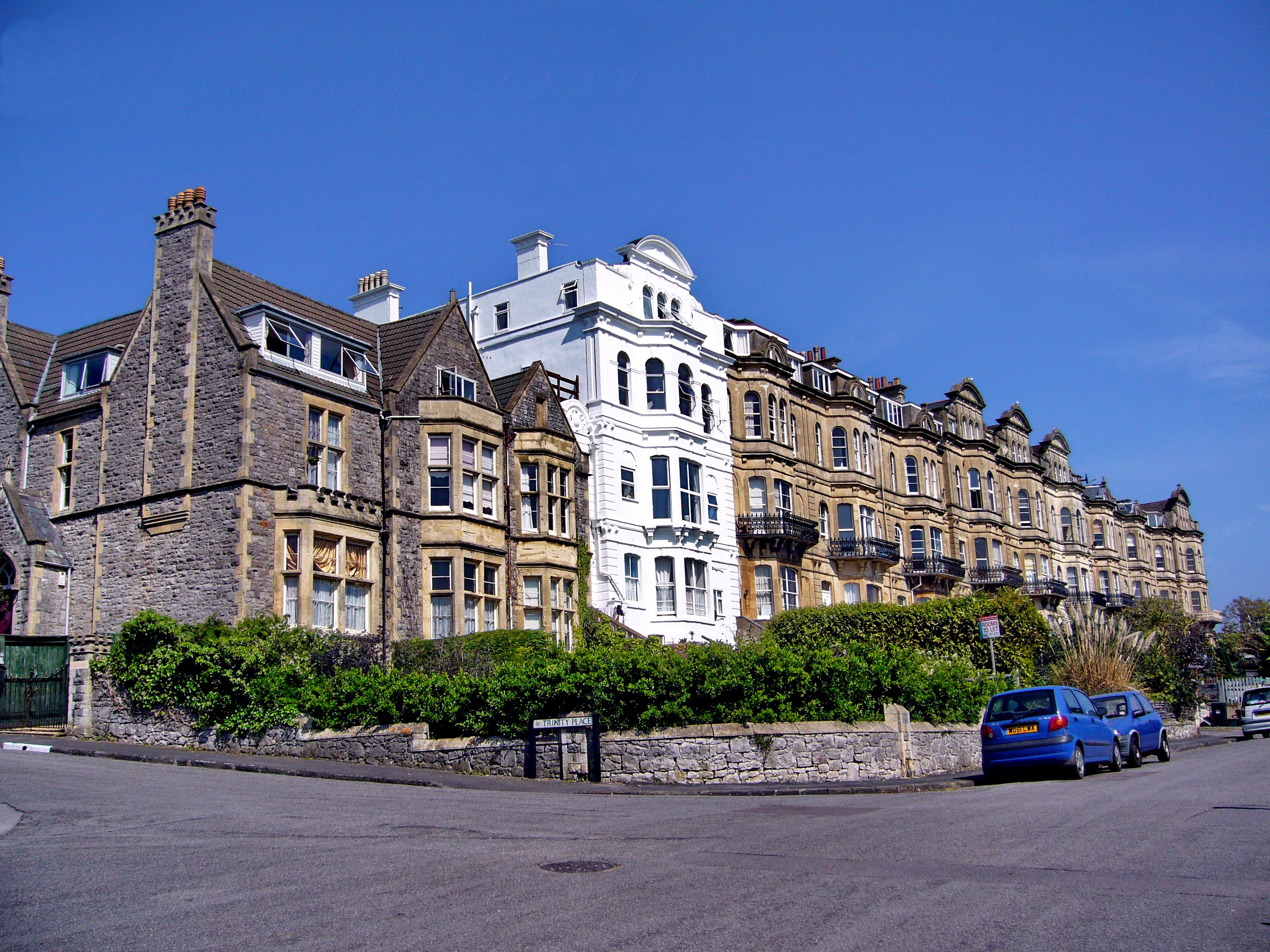 Weston super mare